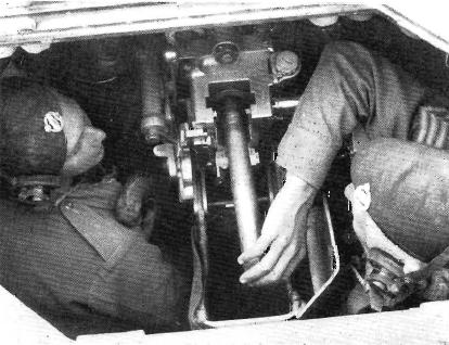 View from turret hatch of the Valentine tank, showing breech of the gun